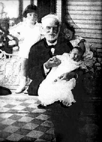 Agustín Ross, considered the founder of Pichilemu.